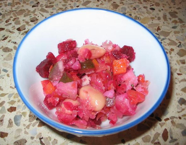 Vinegret - vegetable salad popular in Eastern Europe